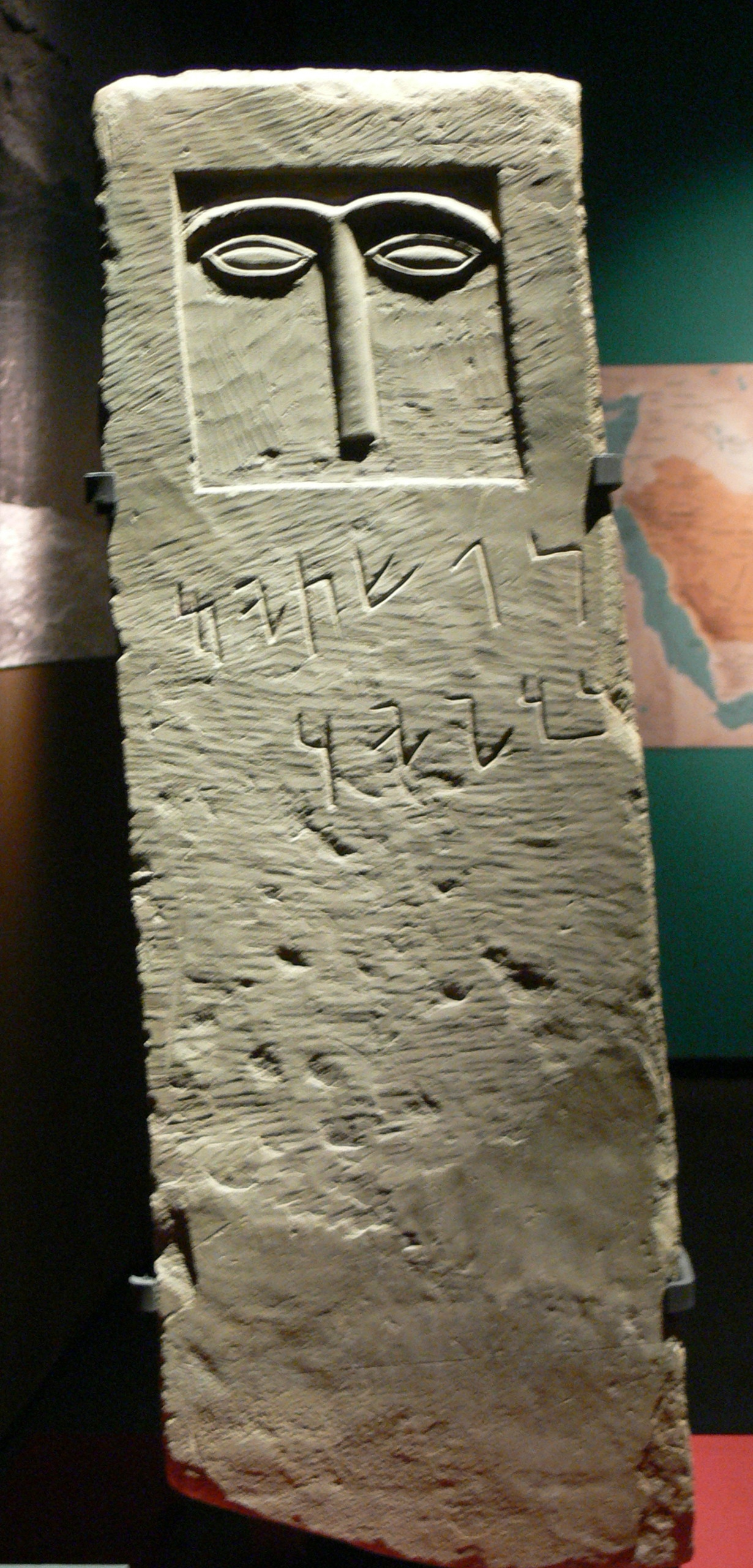 Pergamon Museum ( Berlin ). Exhibition "Roads of Arabia": Eye stele with human face and Aramaic inscription ( 5th/4th century BC ), sandstone, 326x15x72 cm, from Tayma ( Tayma Museum )